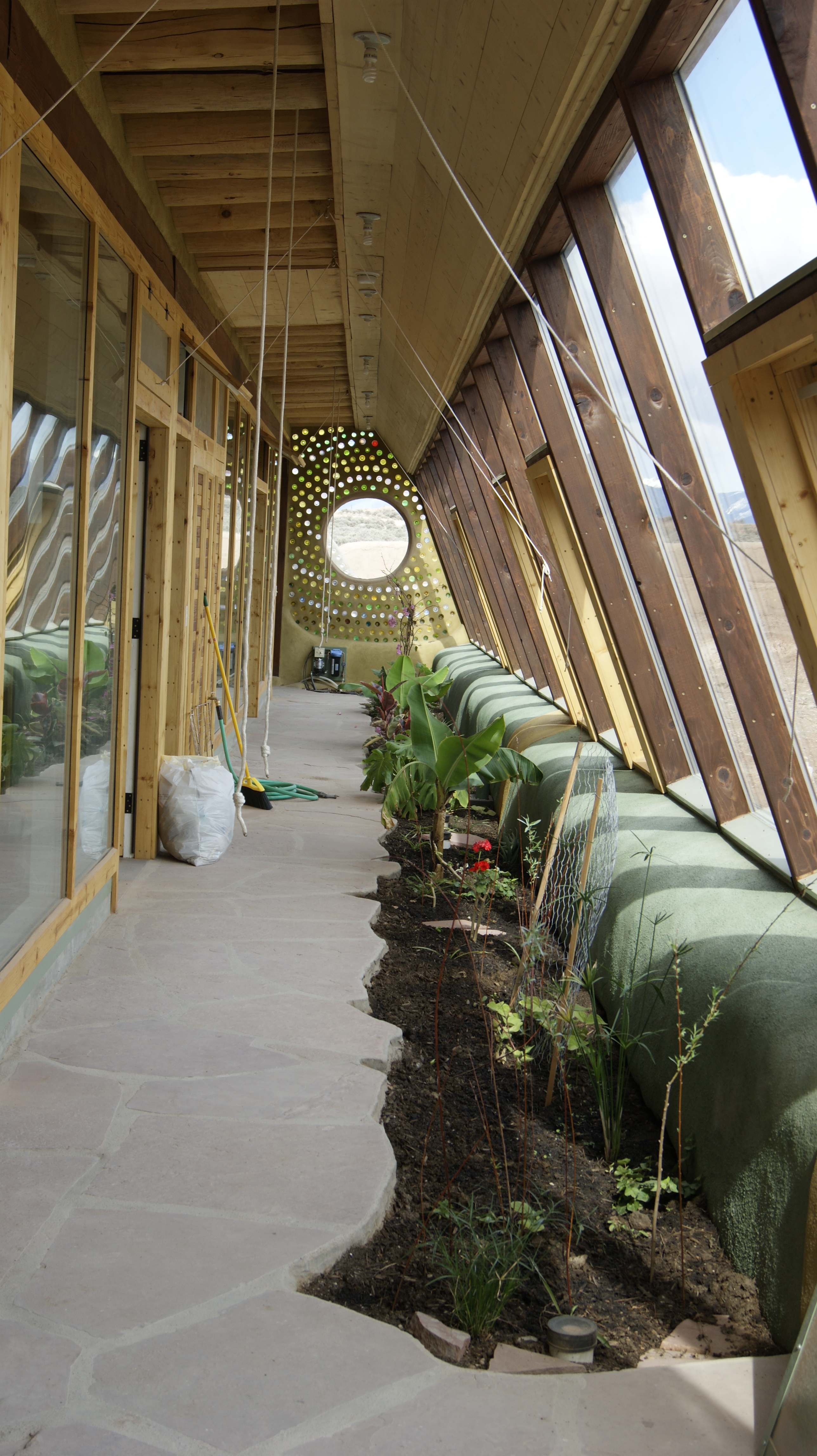 Interior greenhouse showing the grey water botanical cells.